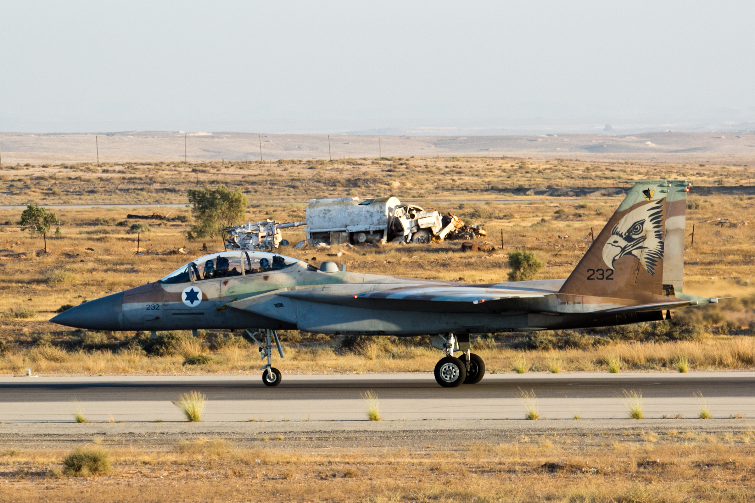 Israeli Air Force 69 Squadron F-15I Raam